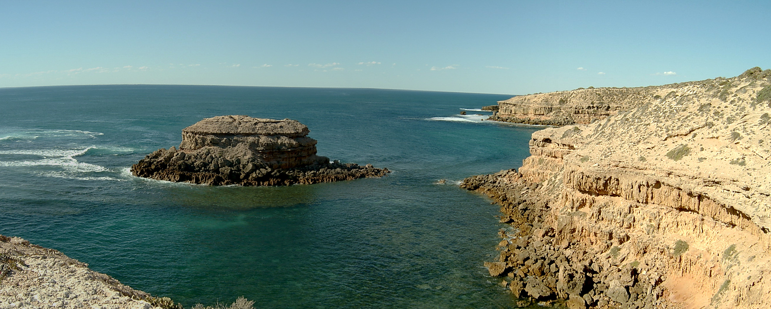 Cape Bauer, a headland in South Australia; it is the southern headland of the bay known as Streaky Bay and the north-westerly point of the Gibson Peninsula